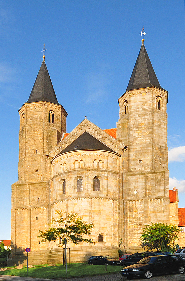 Western facade of the St. Godehard Church, Hildesheim, Lower Saxony, Germany.